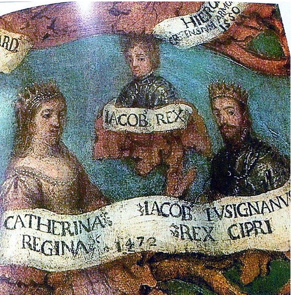 Giacomo II, King of Cyprus, (1439-1473) and Caterina Cornaro (1454-1510)